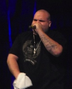 Australian rapper Briggs at Festival Hall in Melbourne, Australia, in 2009